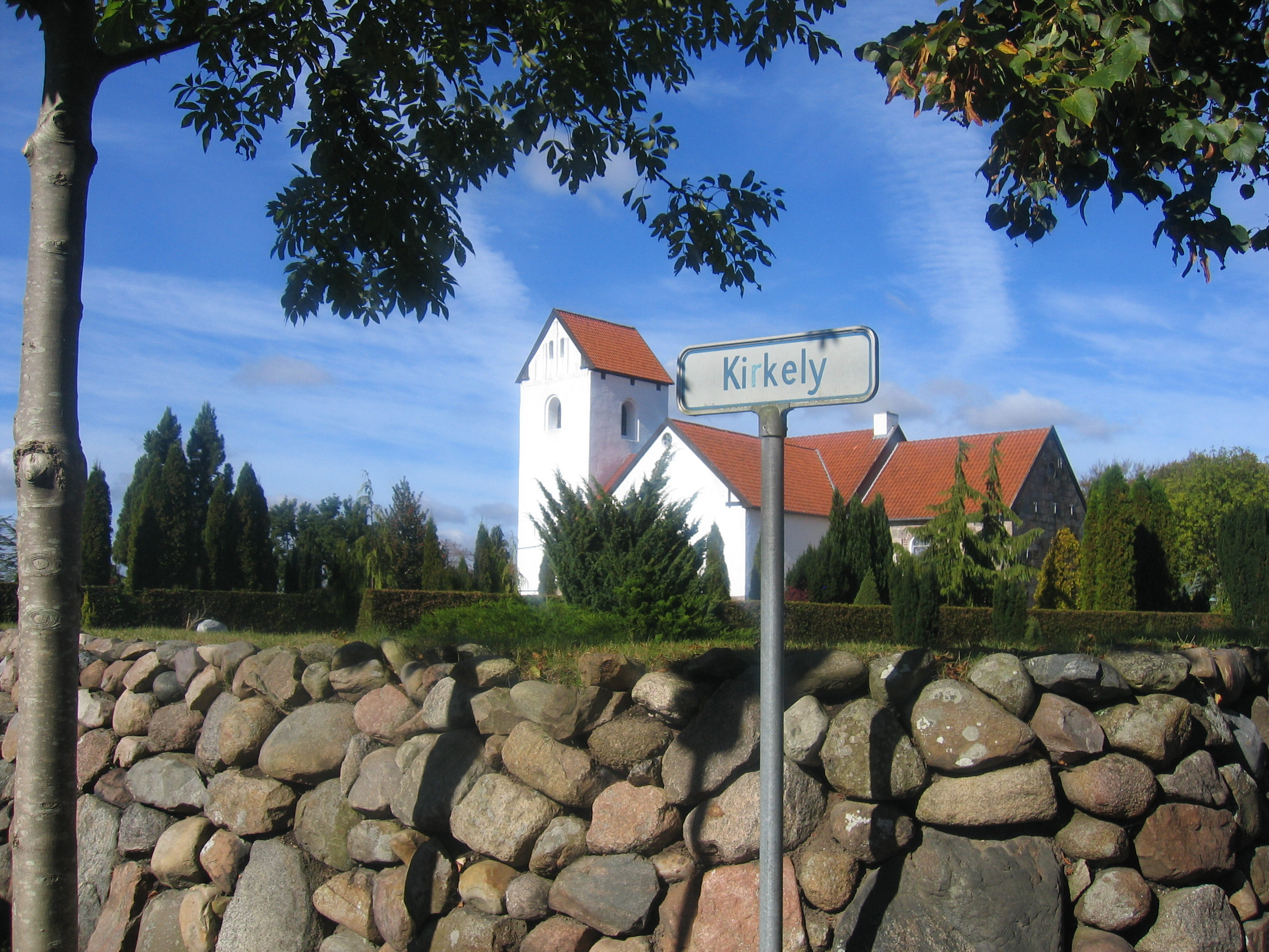 The church in Gjellerup, Herning Kommune, Denmark